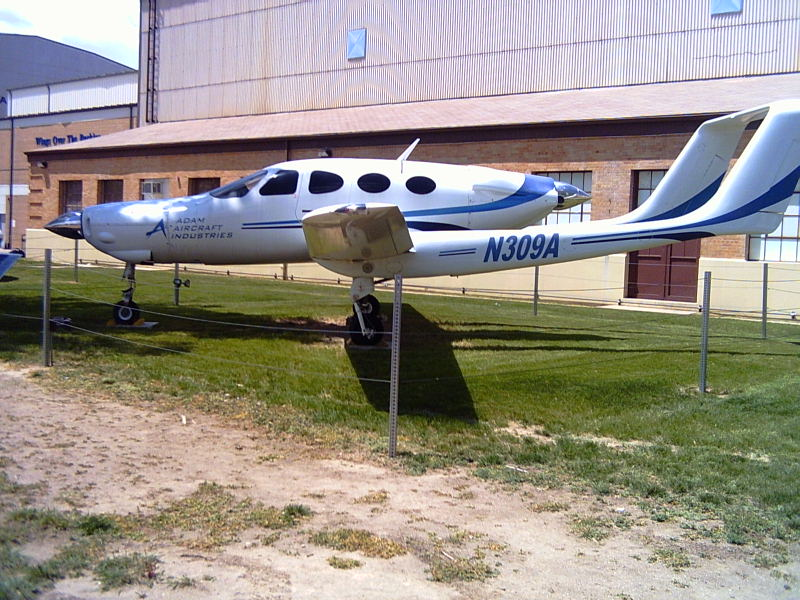 Sentry at the Wings Over the Rockies Air and Space Museum. Picture taken by Lance Barber.